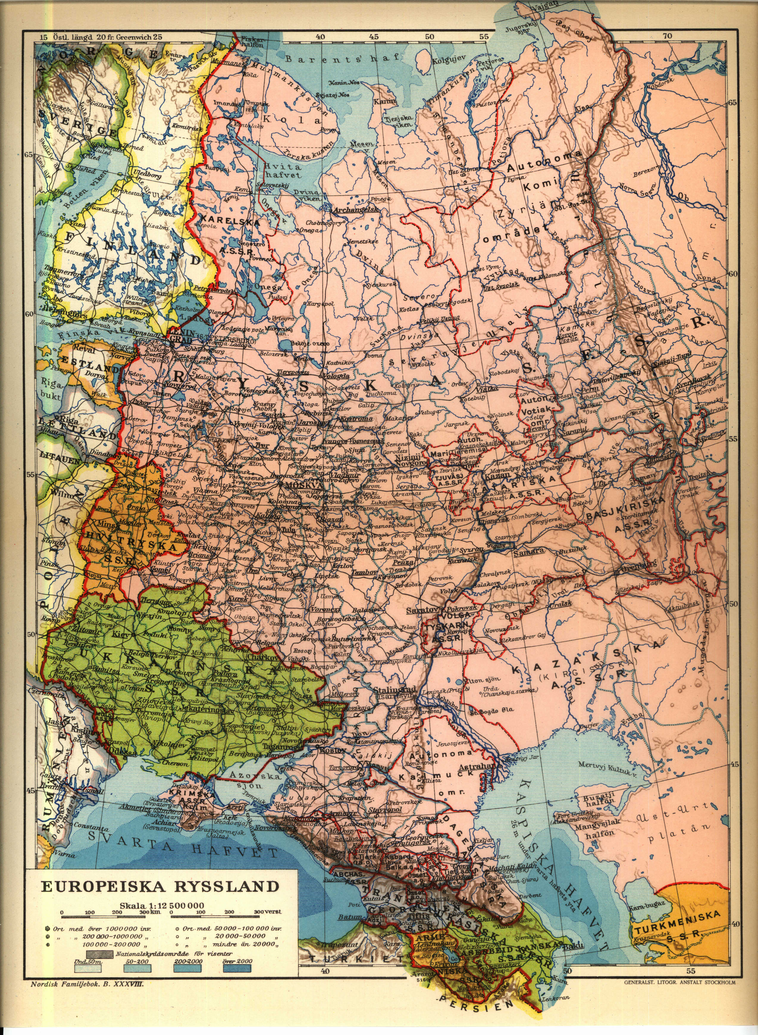 1926 Map of the western Soviet Union region. The Soviet European areas from Finland to the Caucasus.